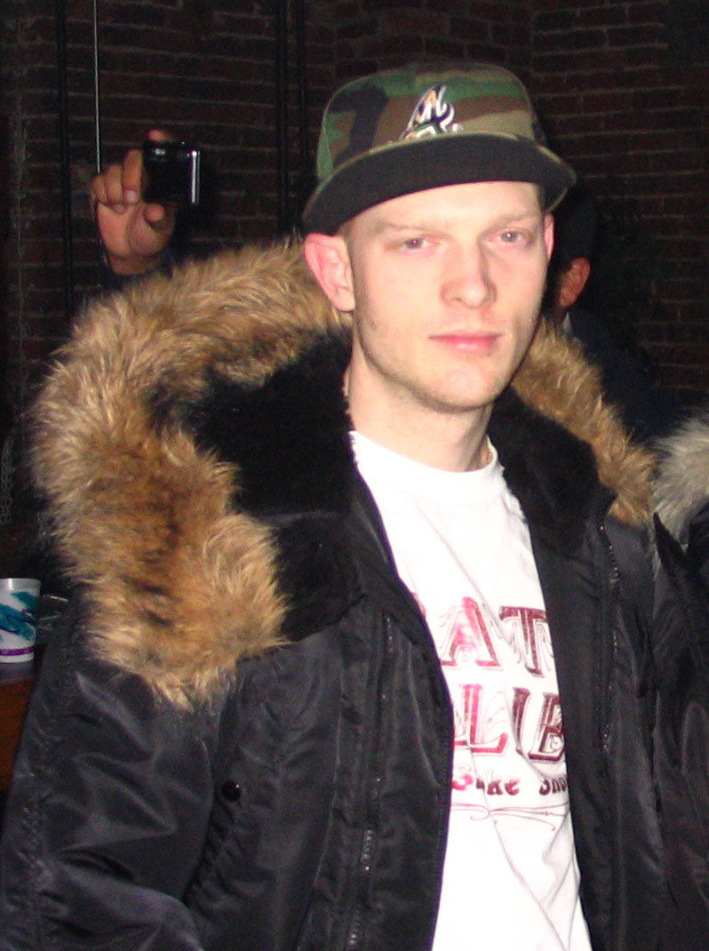 Portrait of DJ Klever taken in Raleigh, NC at a Scion promotional event.